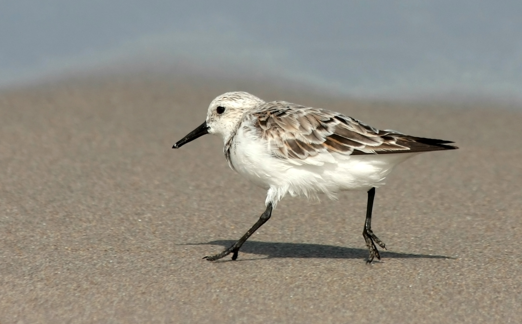 A running sanderling captured in mid stride.